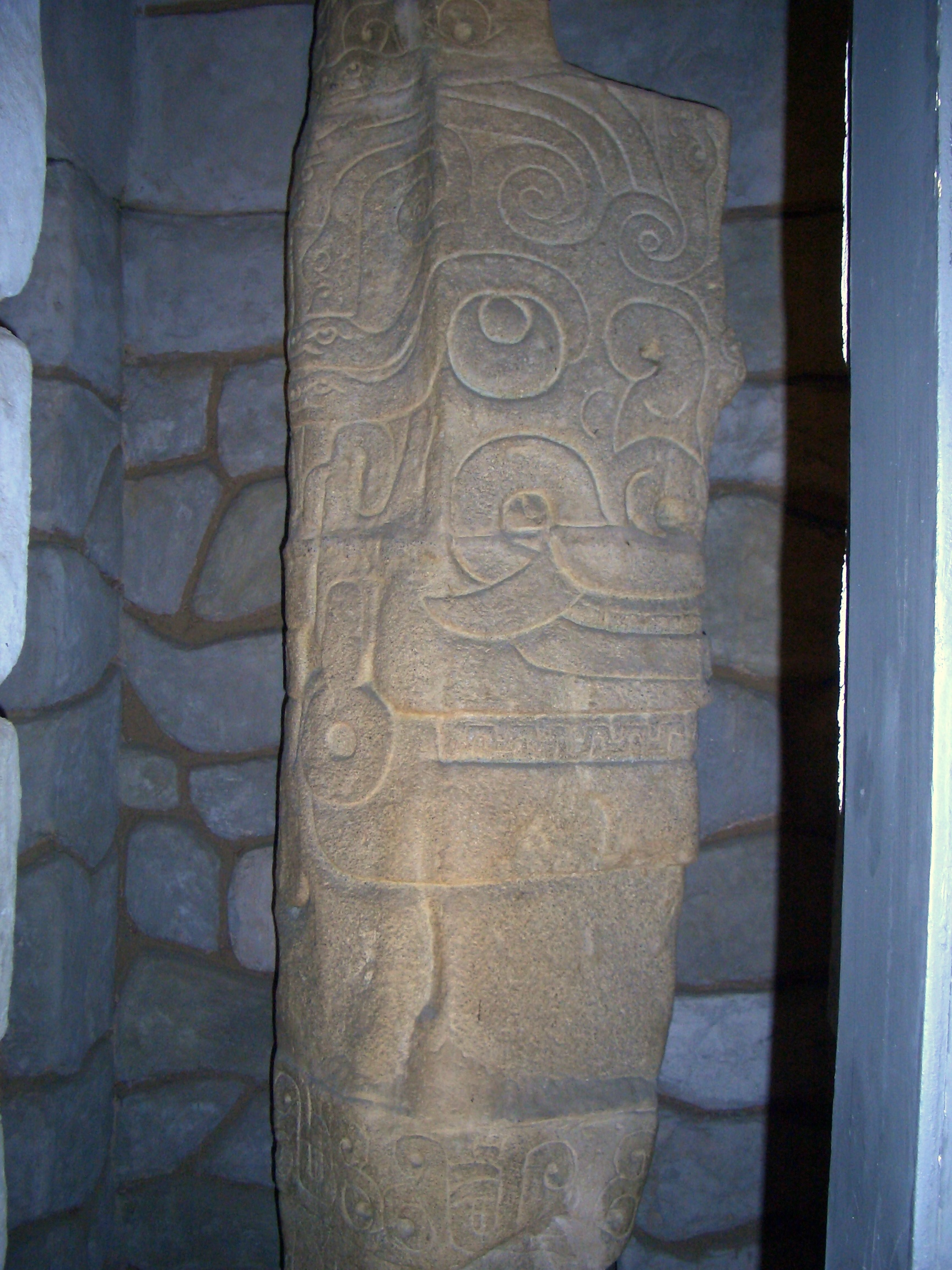 I took this photo was taken at the National Museum of Peru in Lima in the summer of 2004. It is of a replica of the actual sculpture.